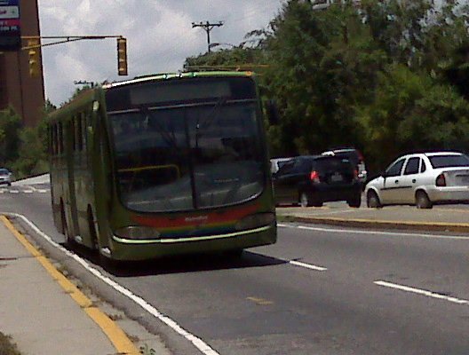 Sector La Boyera, municipio El Hatillo, Estado Miranda - Venezuela (2012)